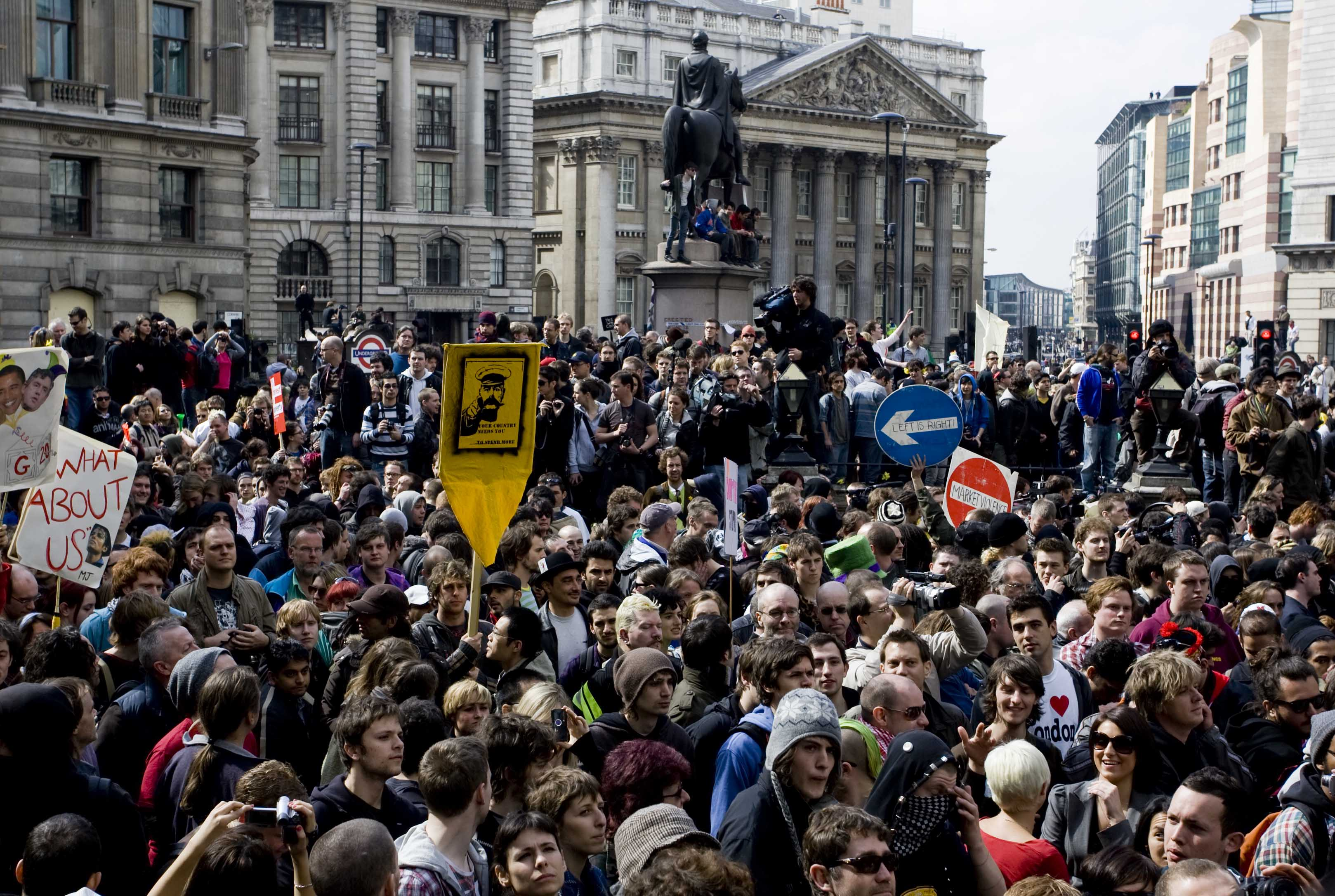 Part of the crowd at the G20 Meltdown protest in London on 1 April 2009